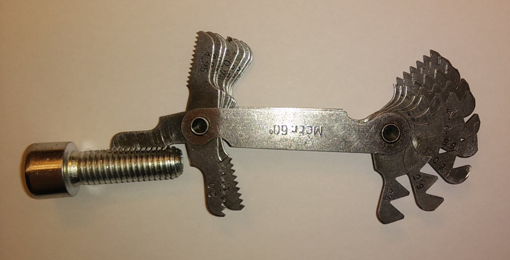 Metric thread pitch gauge and M10 bolt.